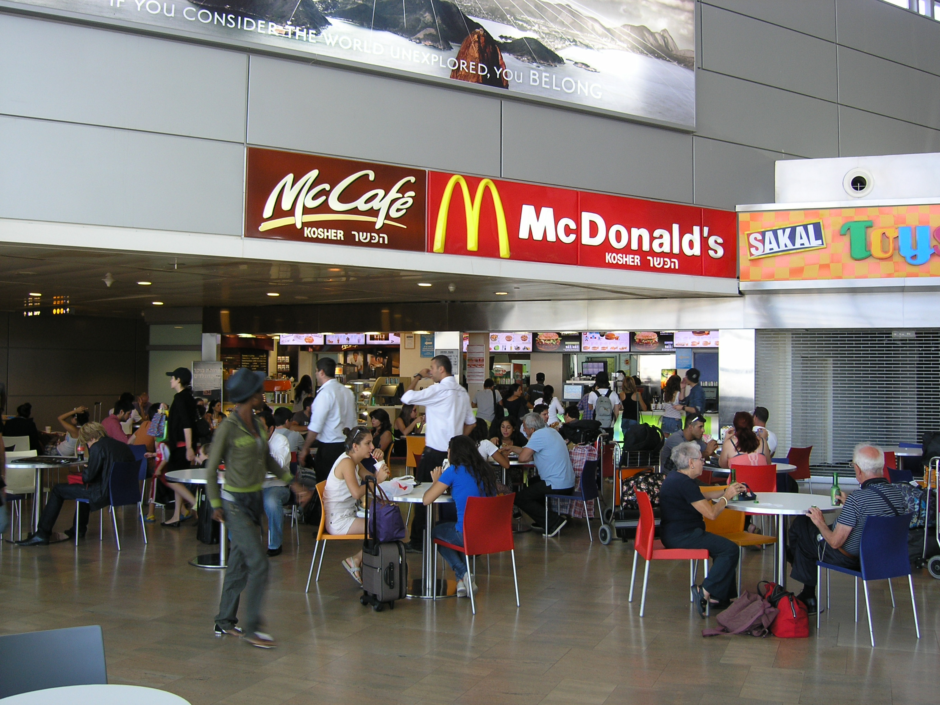 Kosher McDonalds in Ben Gurion International Airport, Tel Aviv (Israel)